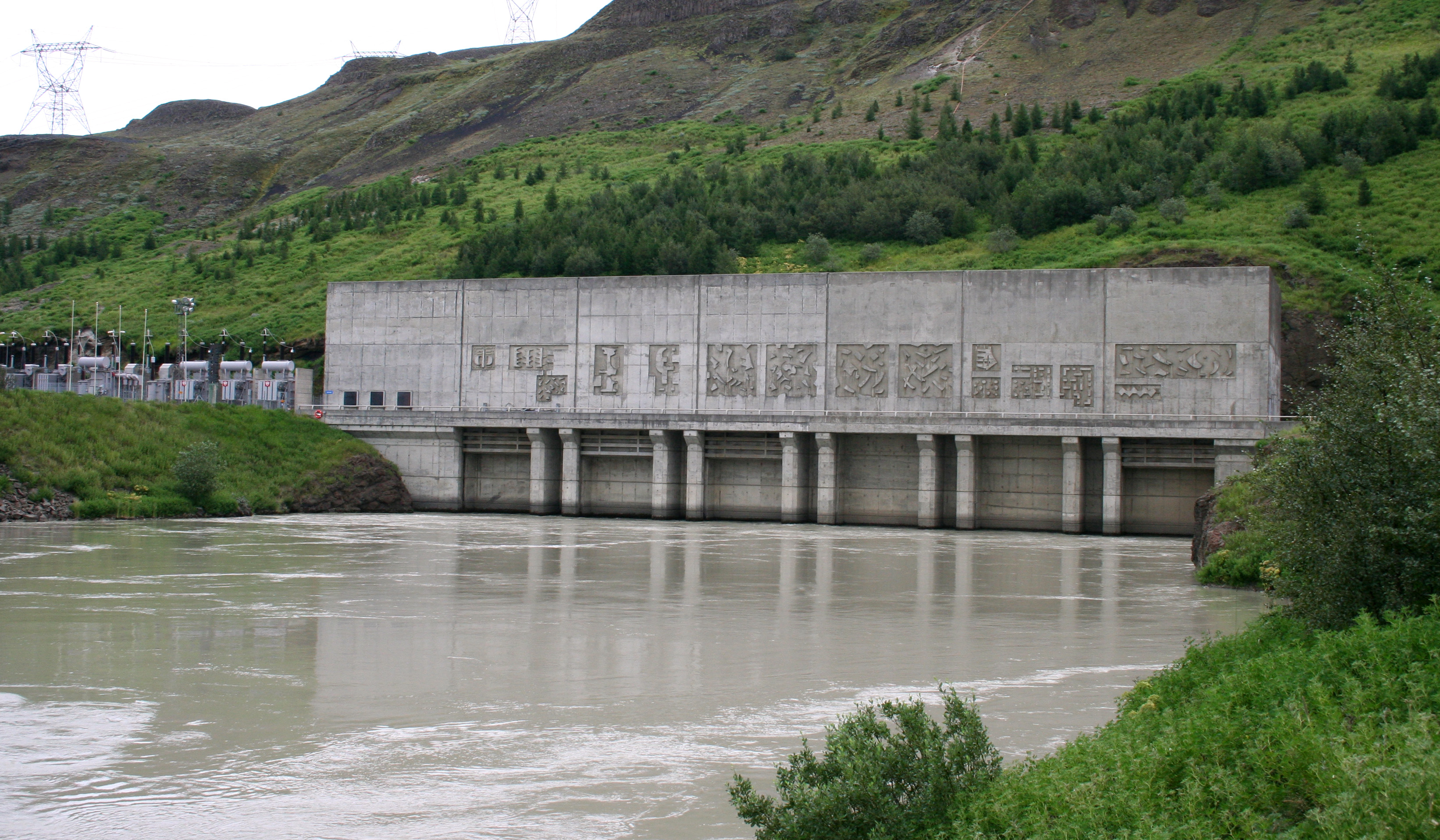 Burfell hydroelectric power plant in the river Thjorsa, Iceland